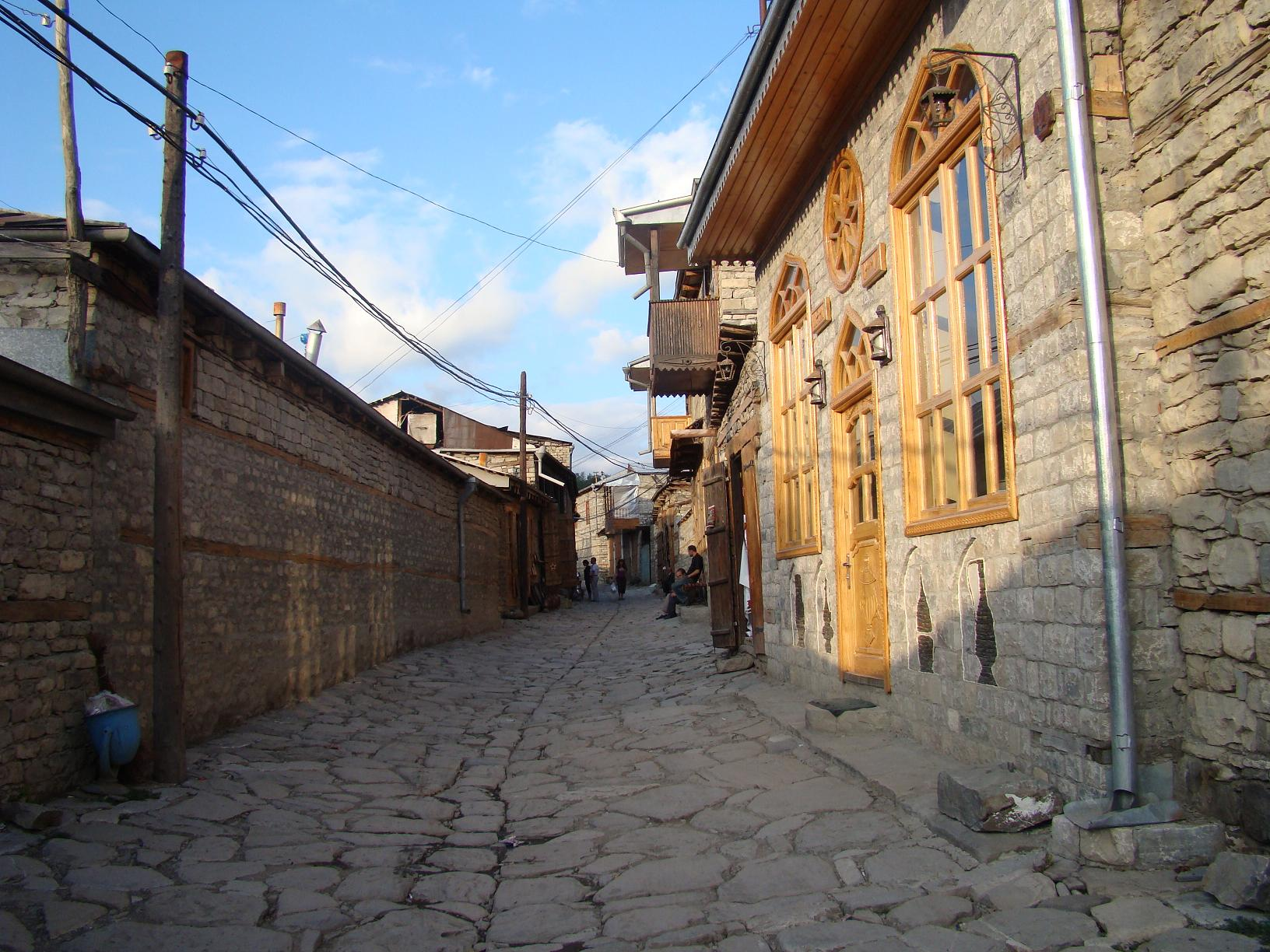 Lahıc, Ismailli, Azerbaijan